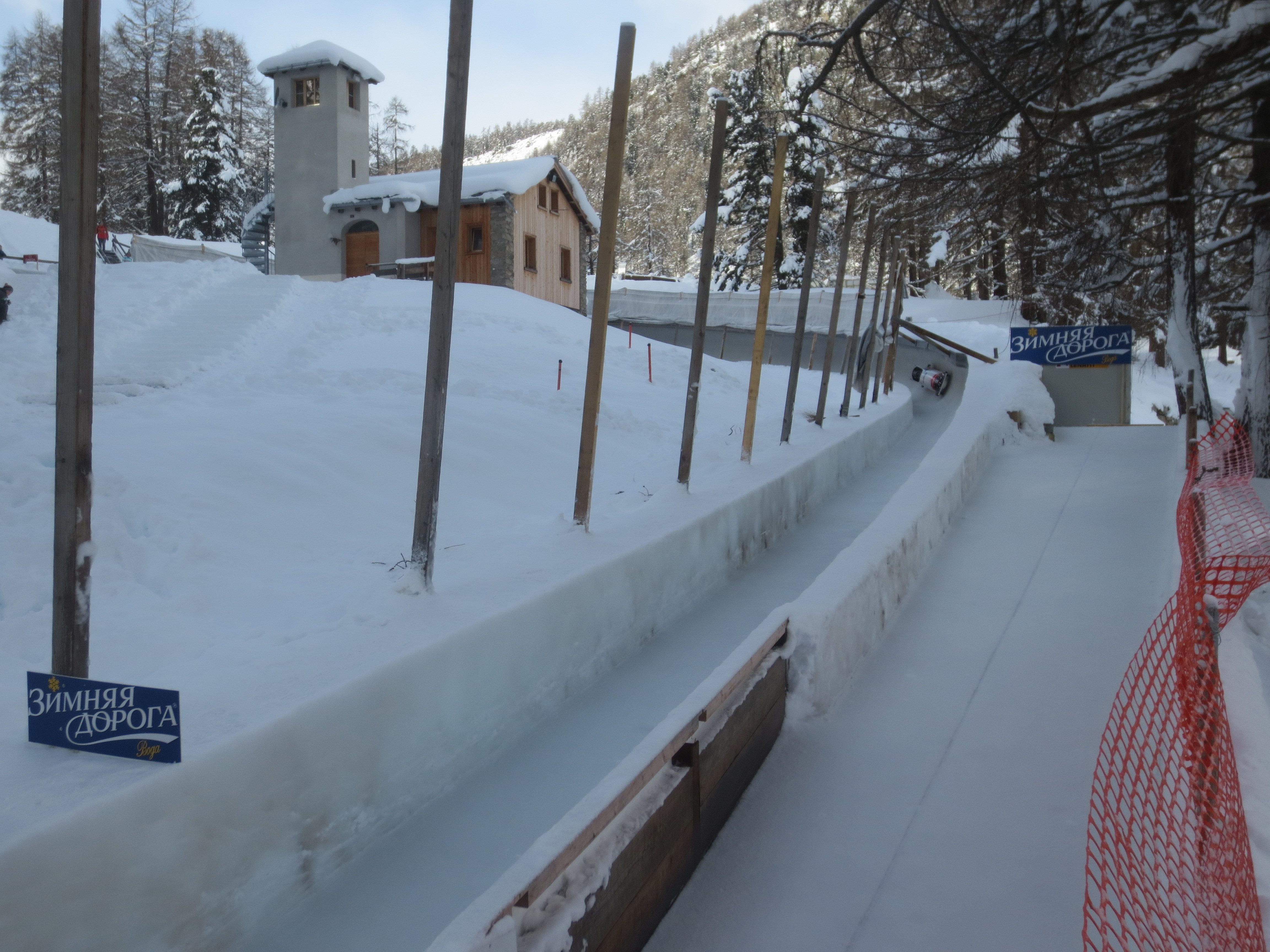 Sunny House and Sunny Corner, St. Moritz-Celerina Olympic Bobrun, Switzerland.